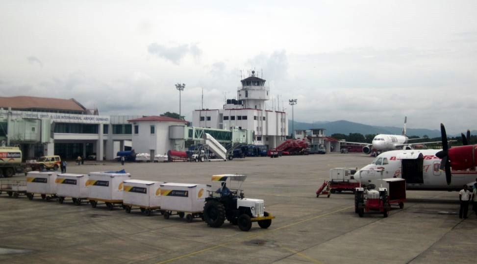 The Lokpriya Gopinath Bordoloi International Airport in 2011, after the terminal renovations. New jetways have been added and the interiors got more shops.